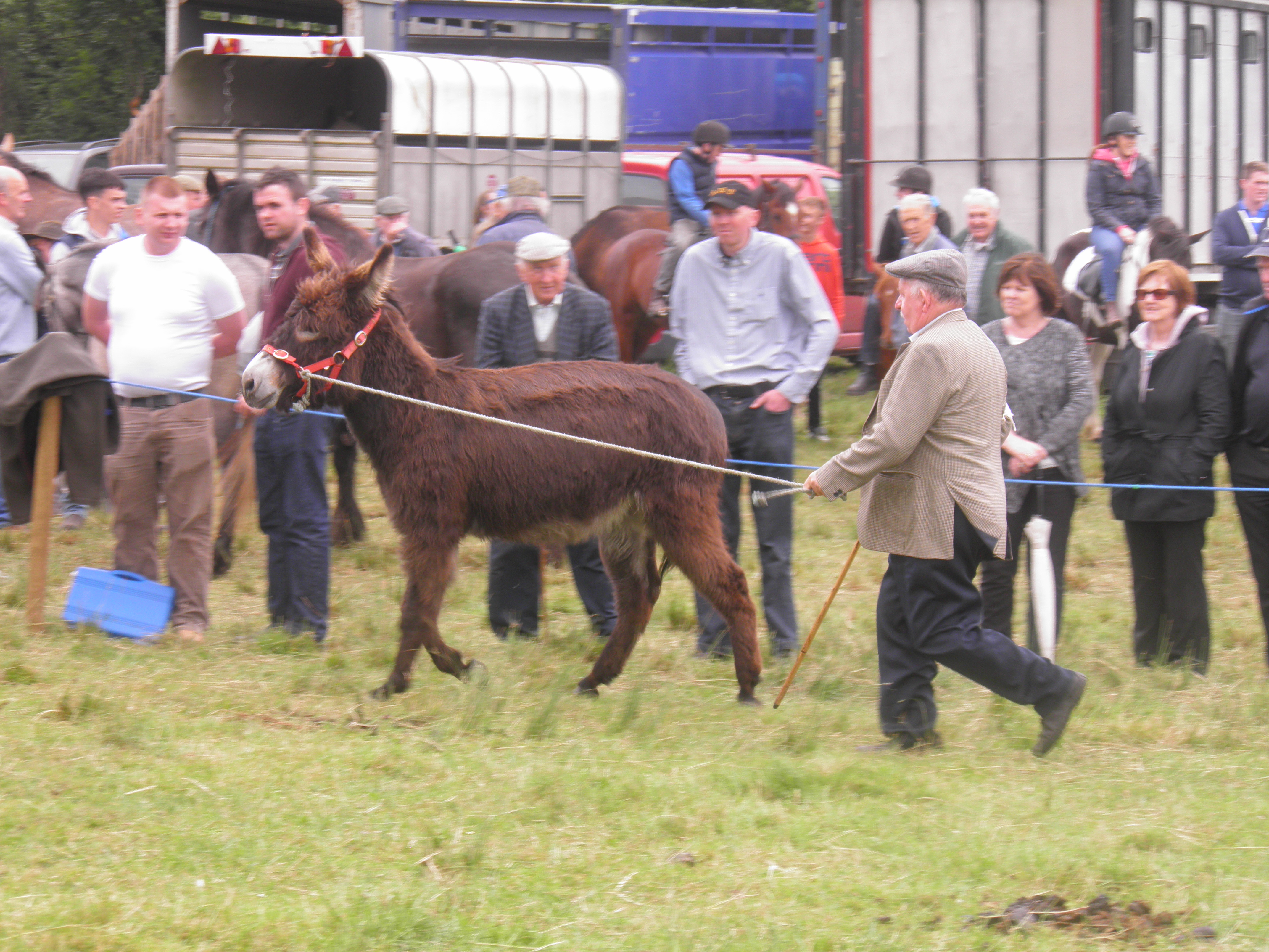 Taken from horse fair at Spancil Hill.